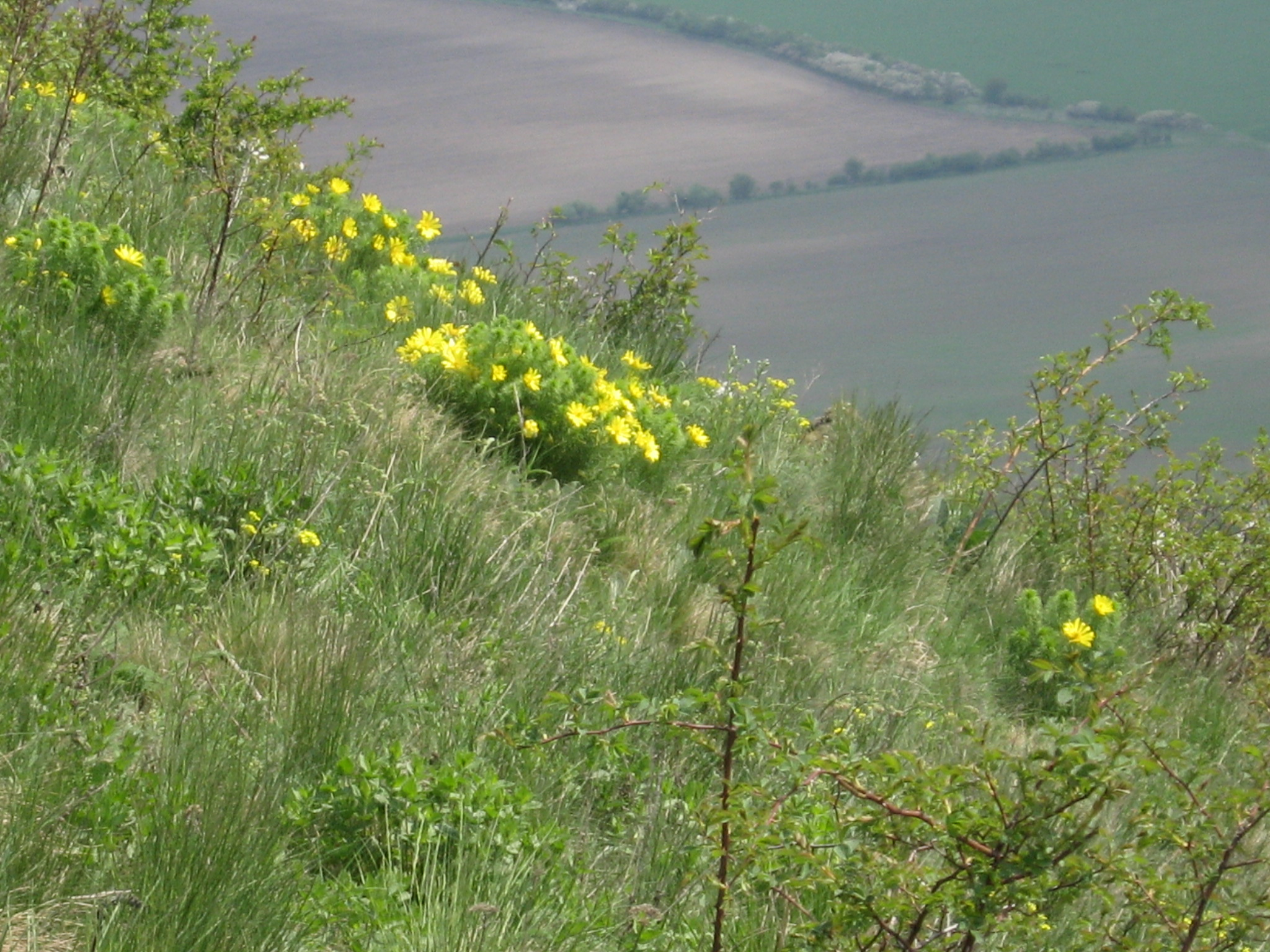 Adonis vernalis on the Hill Milá, Czech Republic